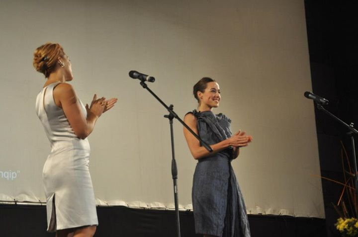 Actress Arta Dobroshi receiving the award for "Best Actress" on the fourth edition of PriFest